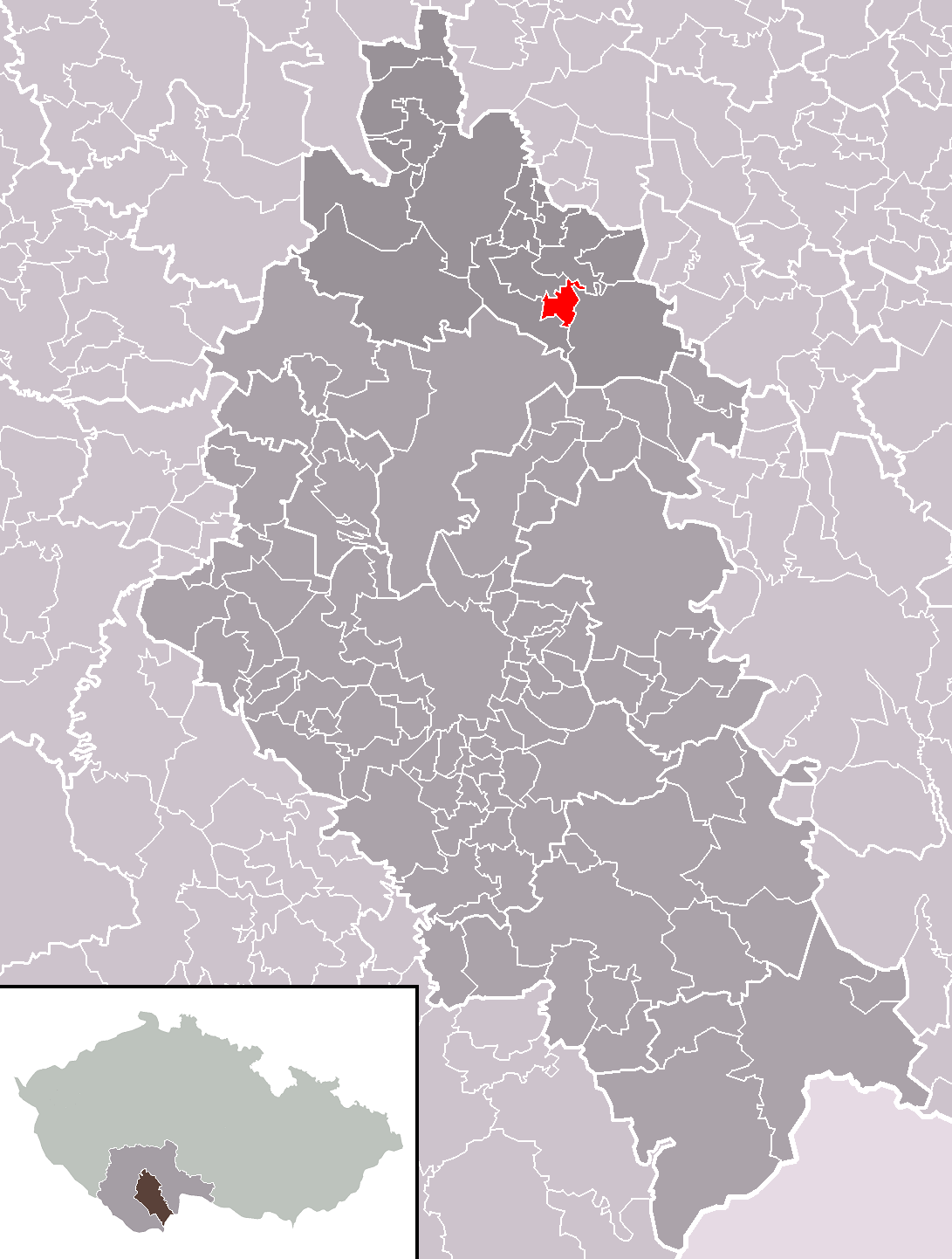 Location of Modrá Hůrka municipality within České Budějovice District and administrative area of Týn nad Vltavou as a Municipality with Extended Competence.